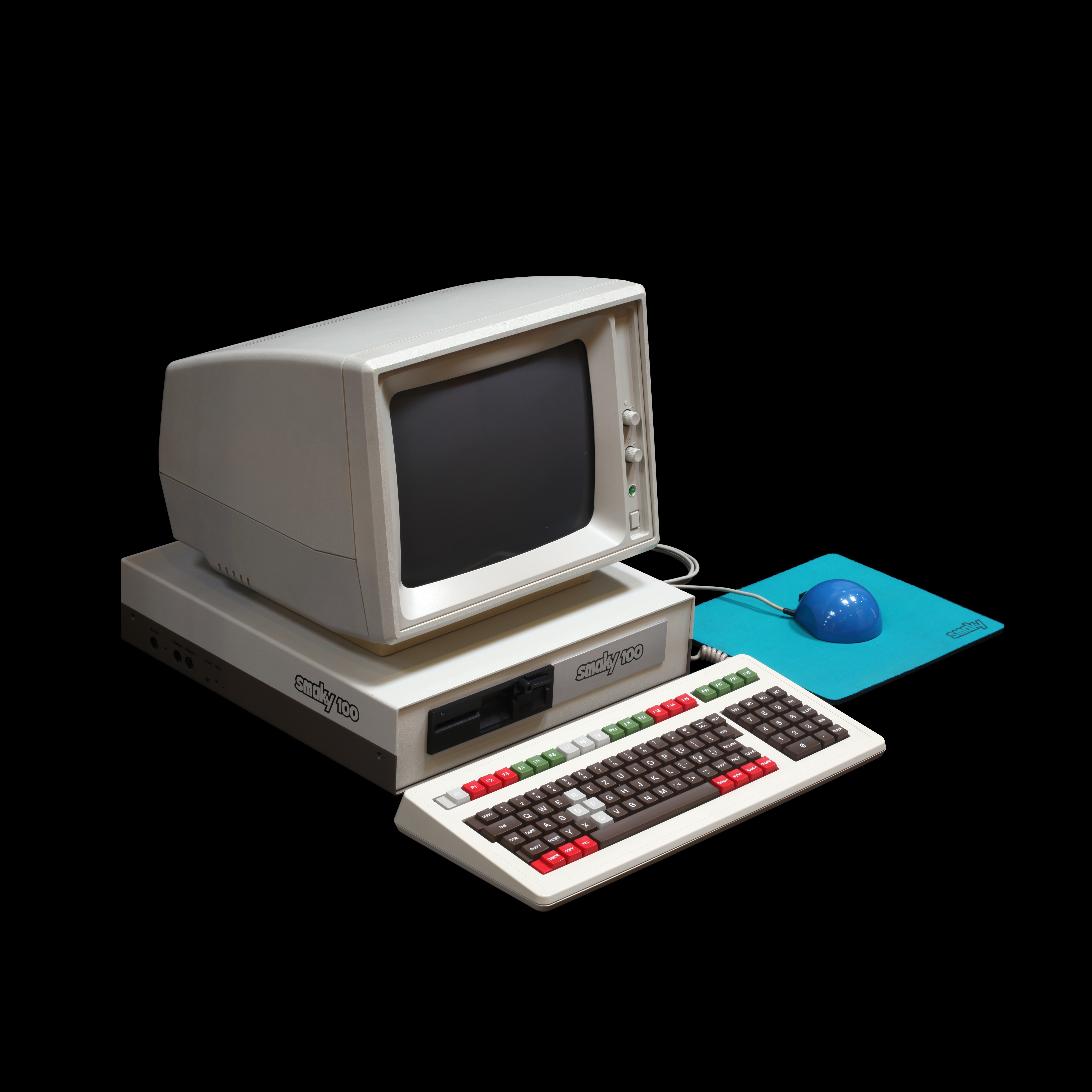 Smaky-100 computer. On display at the Musée Bolo, EPFL, Lausanne.